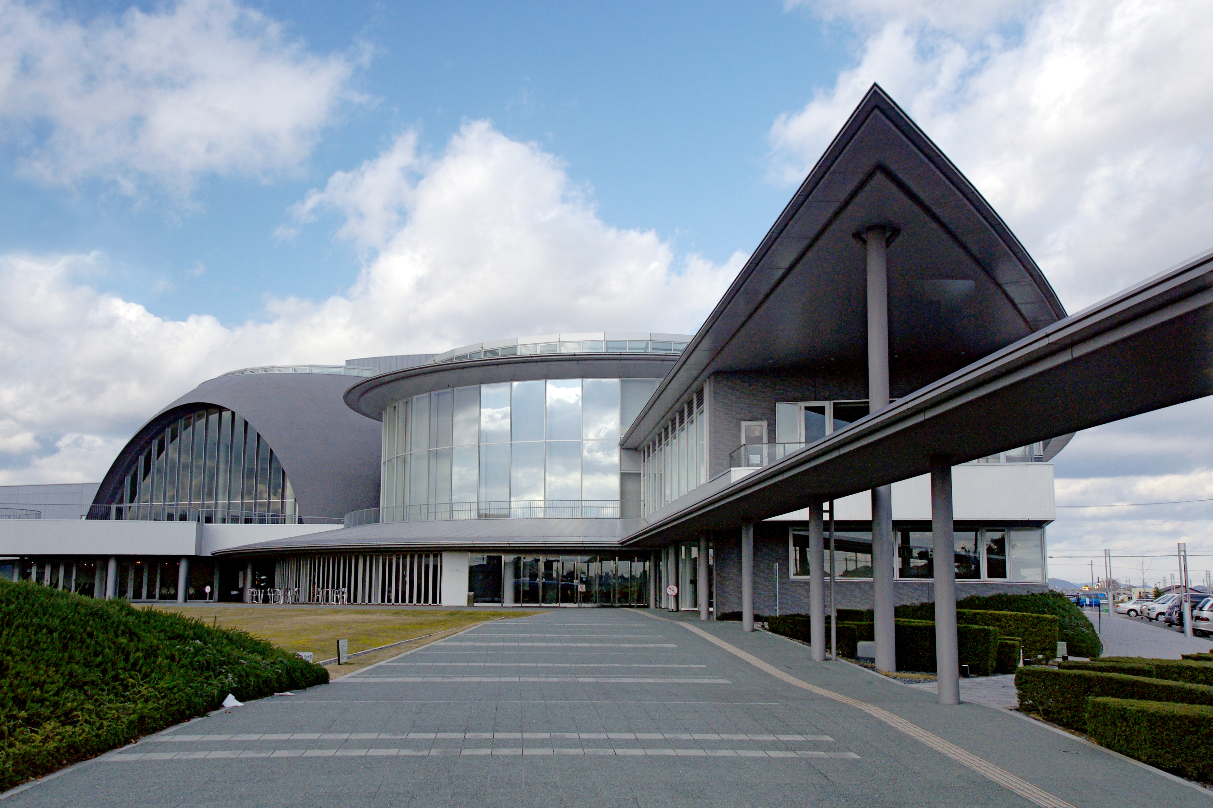 Eclat, in Ono, Hyogo prefecture, Japan